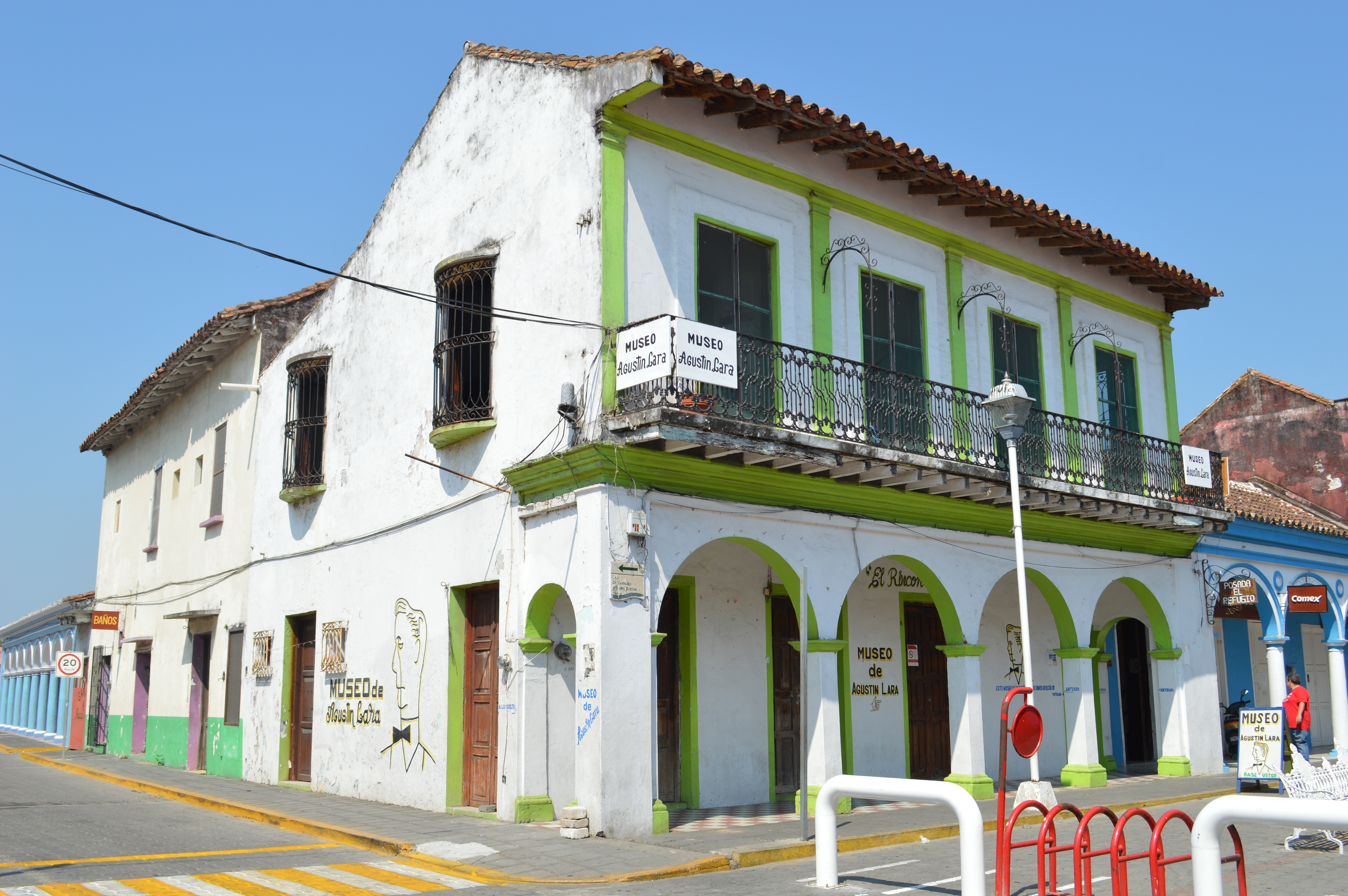 Agustin Lara House Museum in Tlacotalpan, Veracruz, Mexico